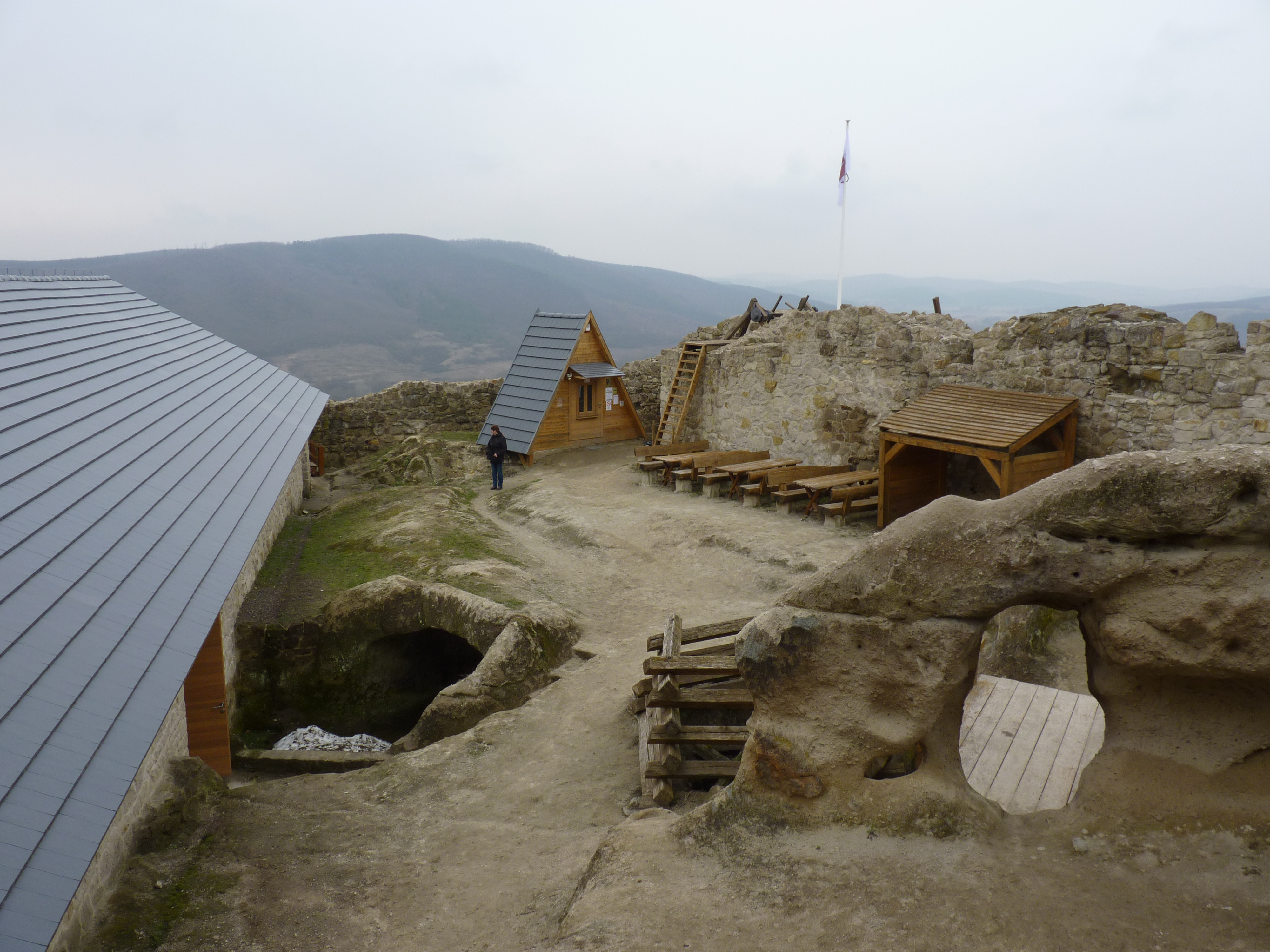 Castle of Sirok - view of lower castle